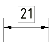 theoretically exact measure